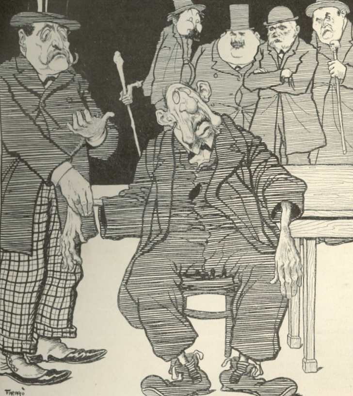 Hypochondriac